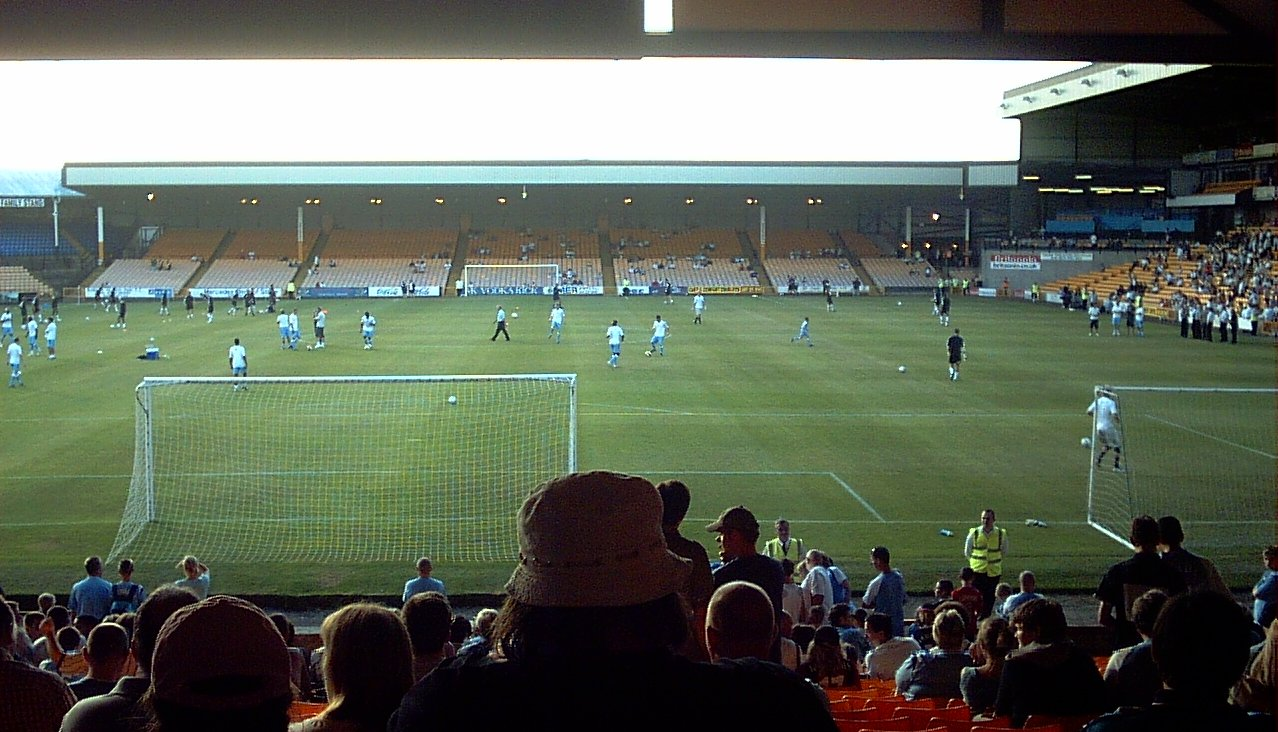 Vale Park, home of Port Vale F.C., July 2006